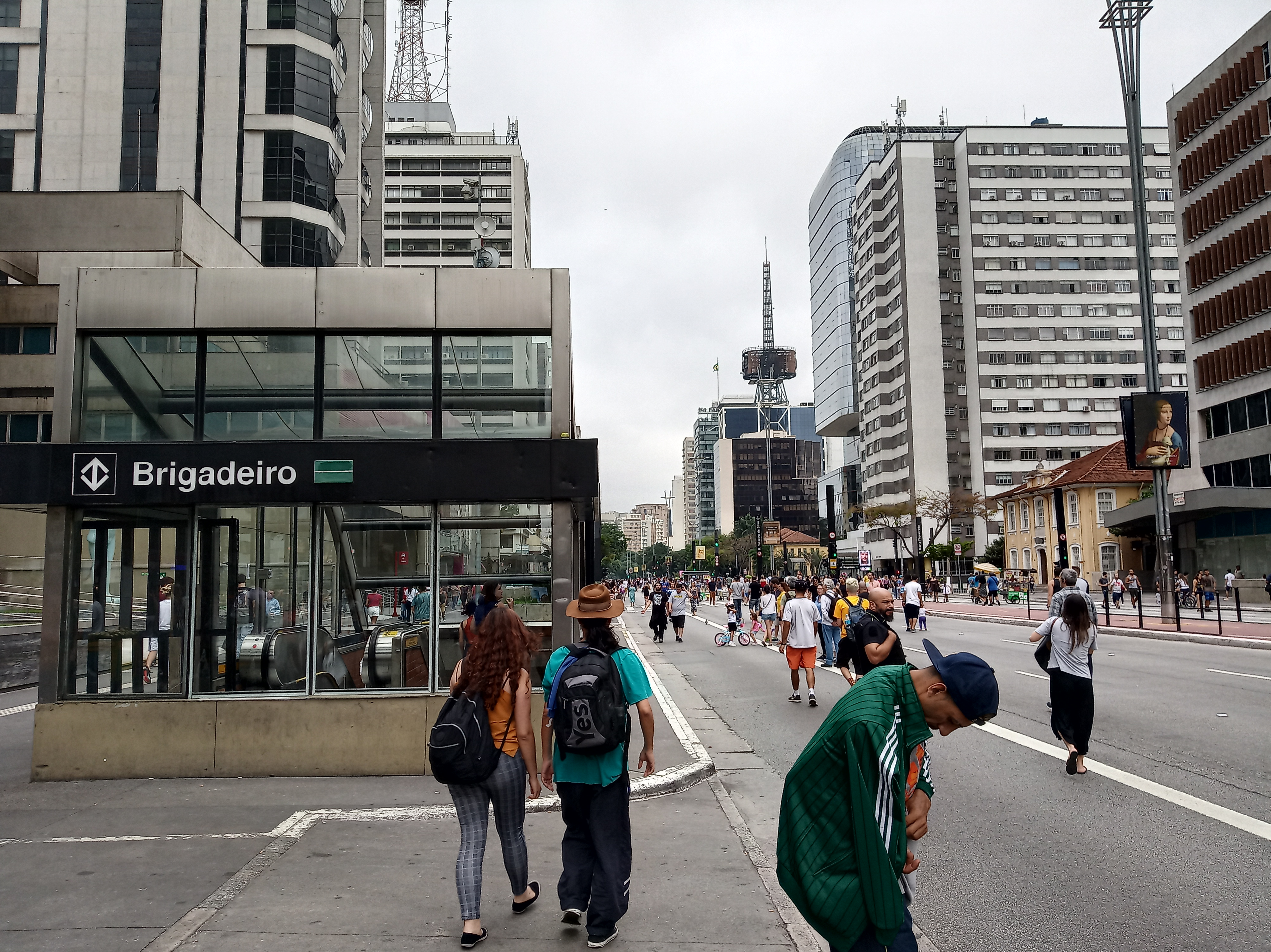 Avenida Paulista in São Paulo, from the entrance of the metro station Brigadeiro (2019)